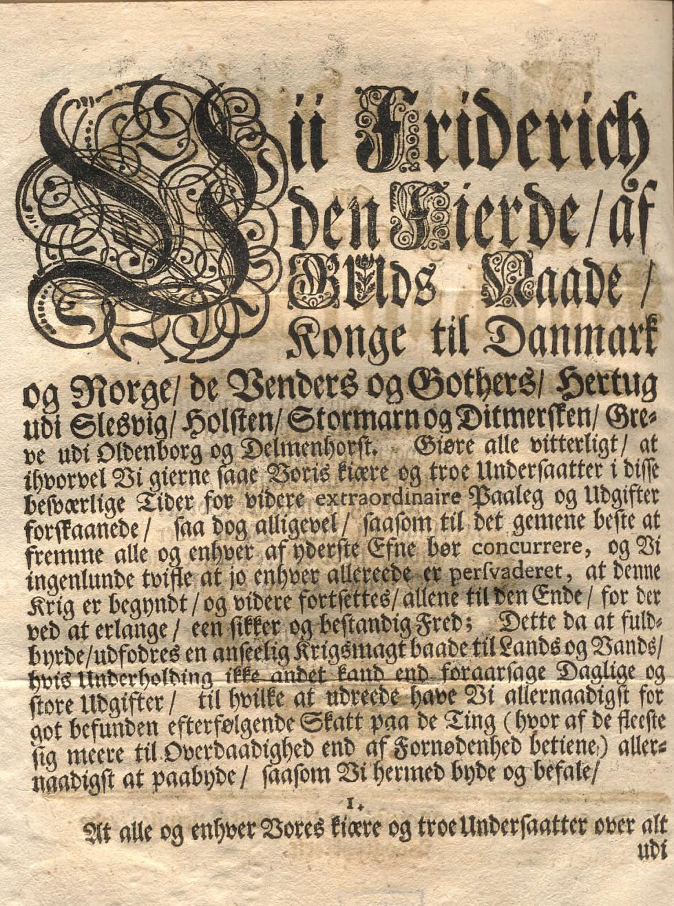 The decree of February 21 1711.